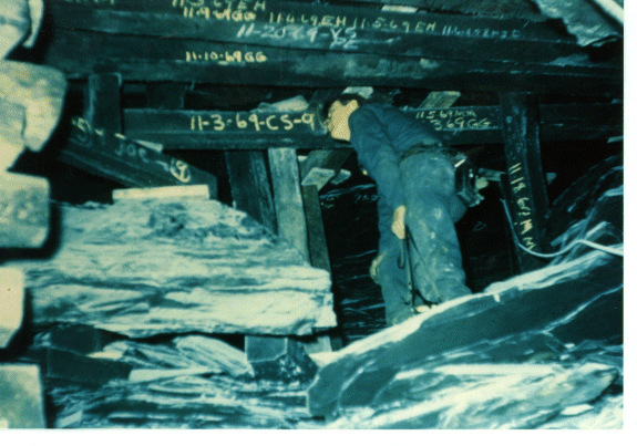 Inspection of the mine shafts during the recovery and investigation following the reopening of the mine.